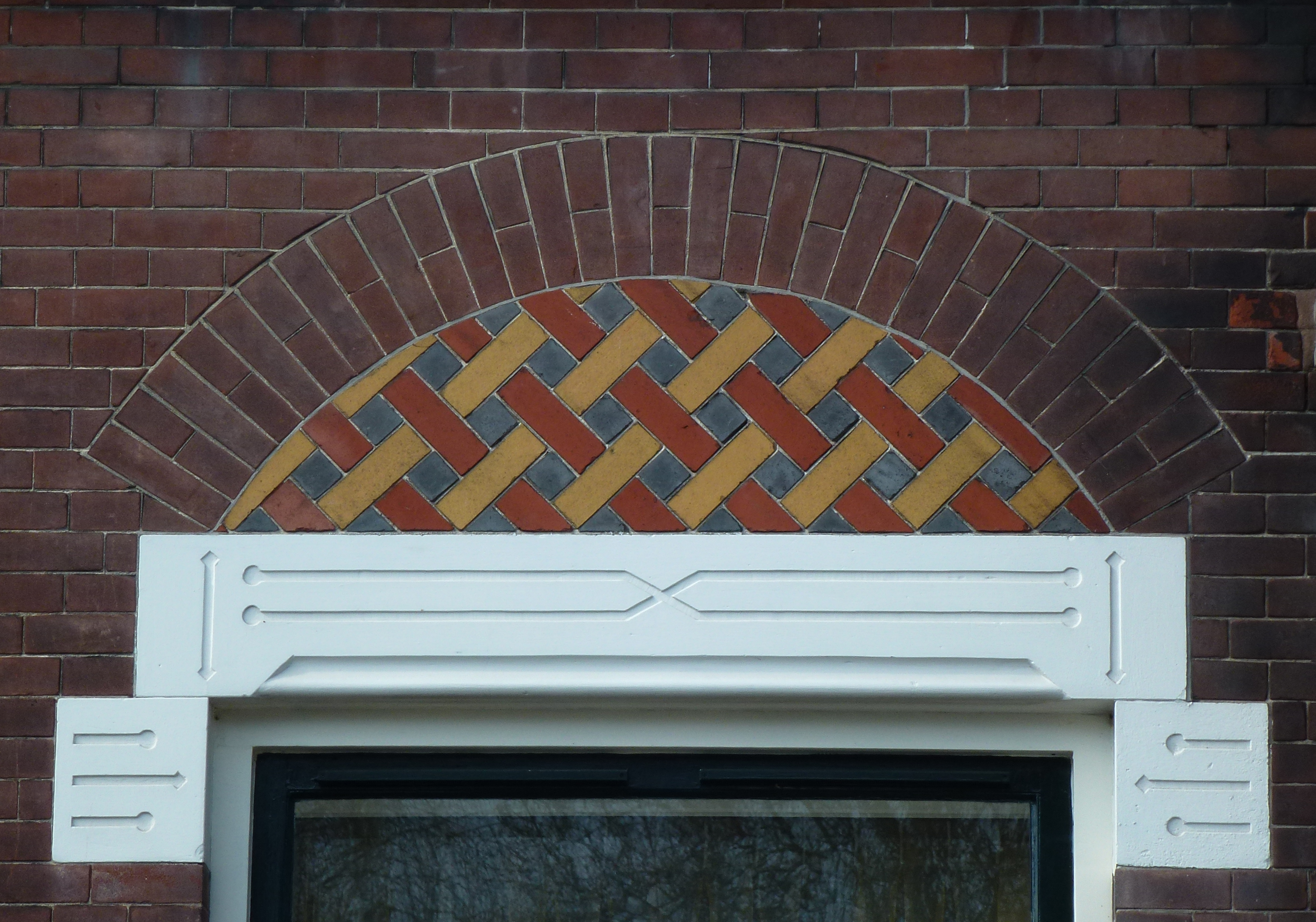 Segmentel arch and tympanum from 1905 in Gouda nl